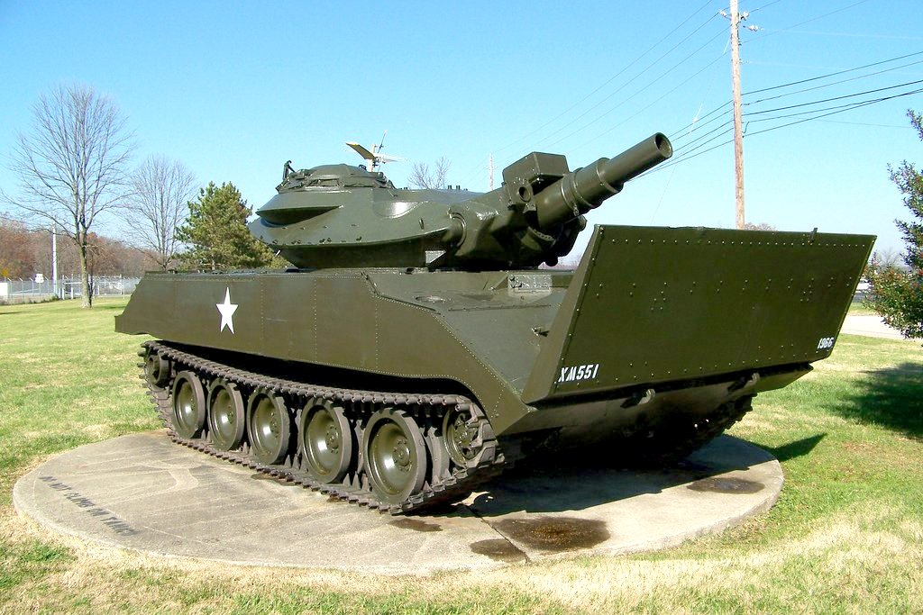 XM551 at Patton Museum, Fort Knox, Kentucky.